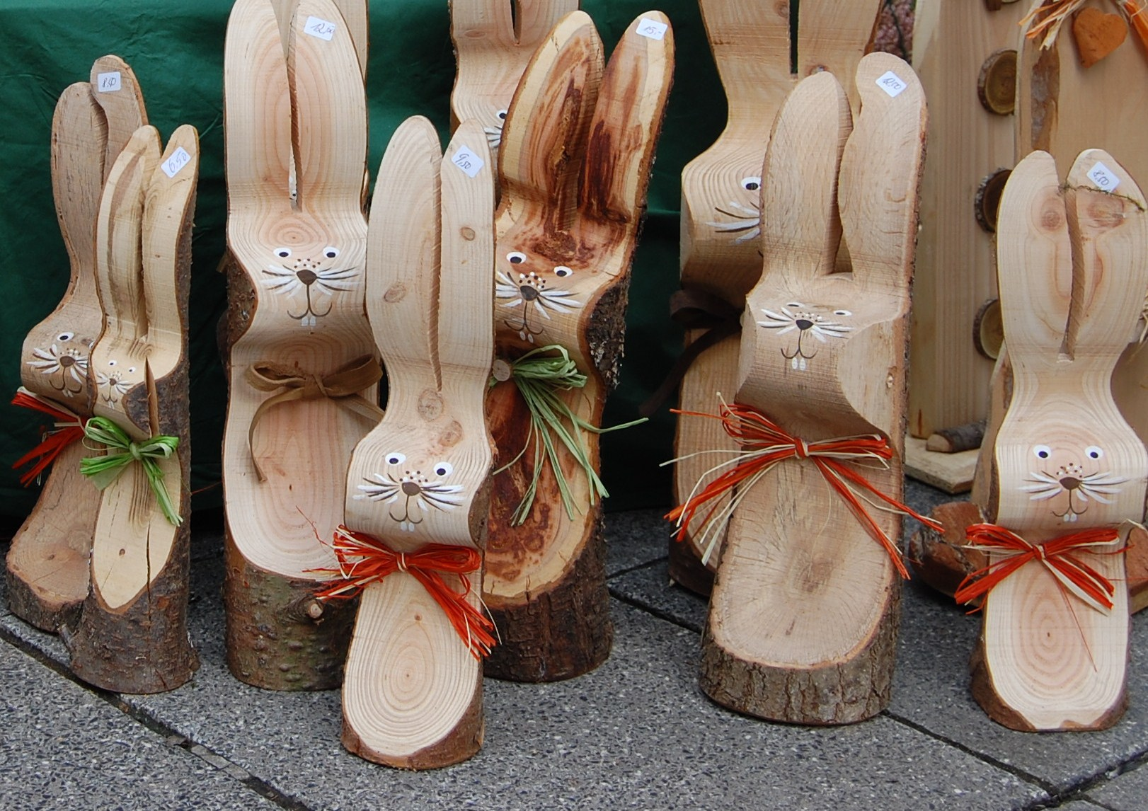 Wooden Easter Bunnies